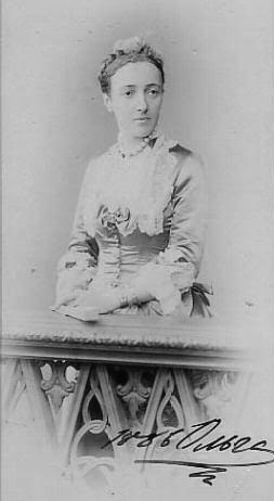 Grand Duchess Olga Feodorovna, born Cecile of Baden